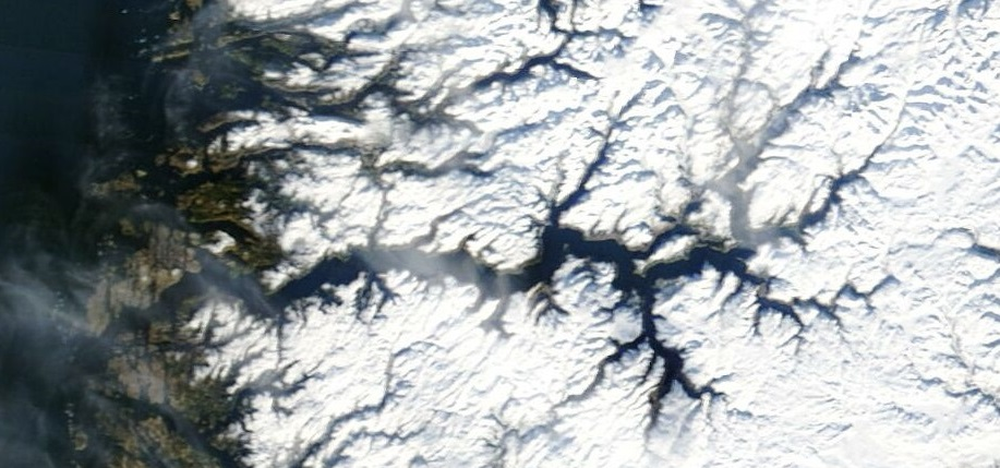 Satellite image of continental Norway in February 2003. Cropped to show only Sognefjorden.